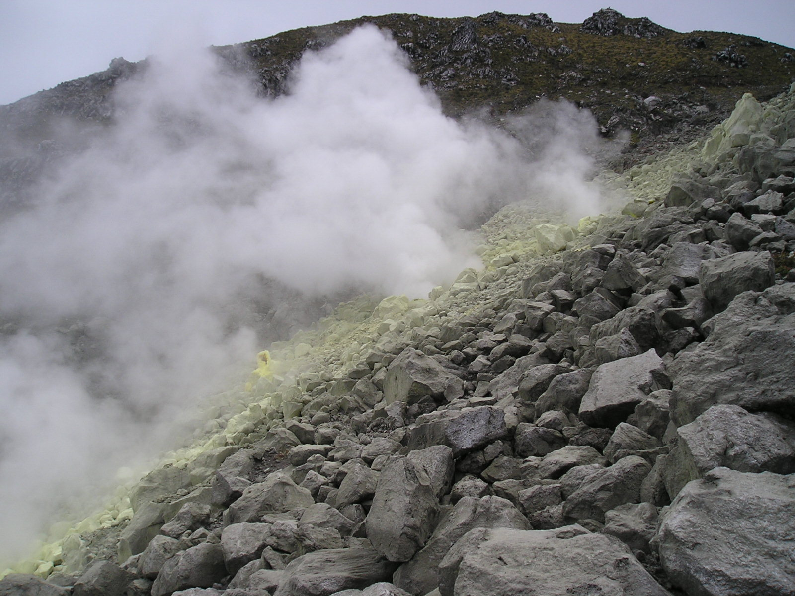 Sulfur vents on Mount Apo, Mindanao, Philippines